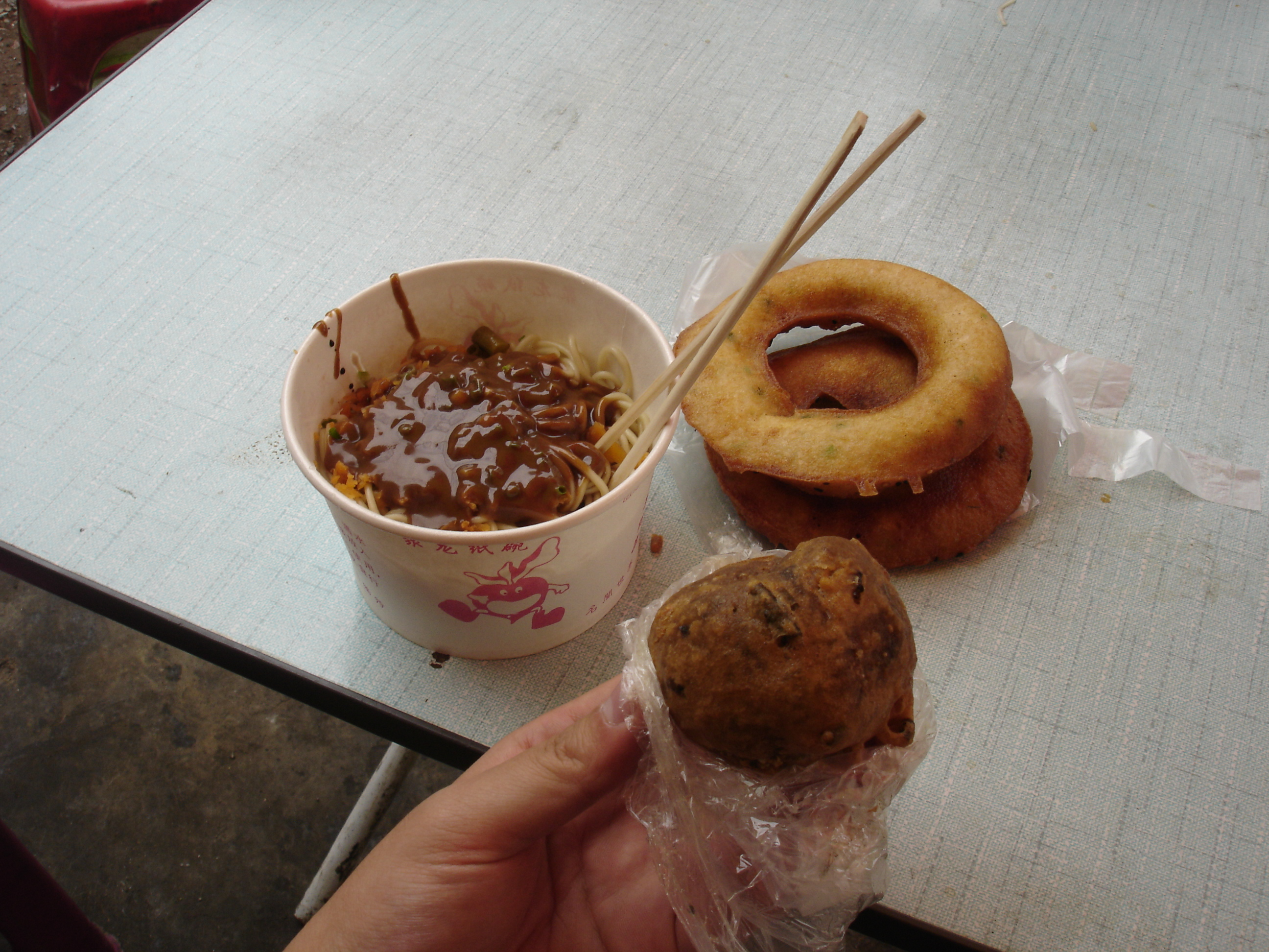 reganmian, mianwo, nuomiji